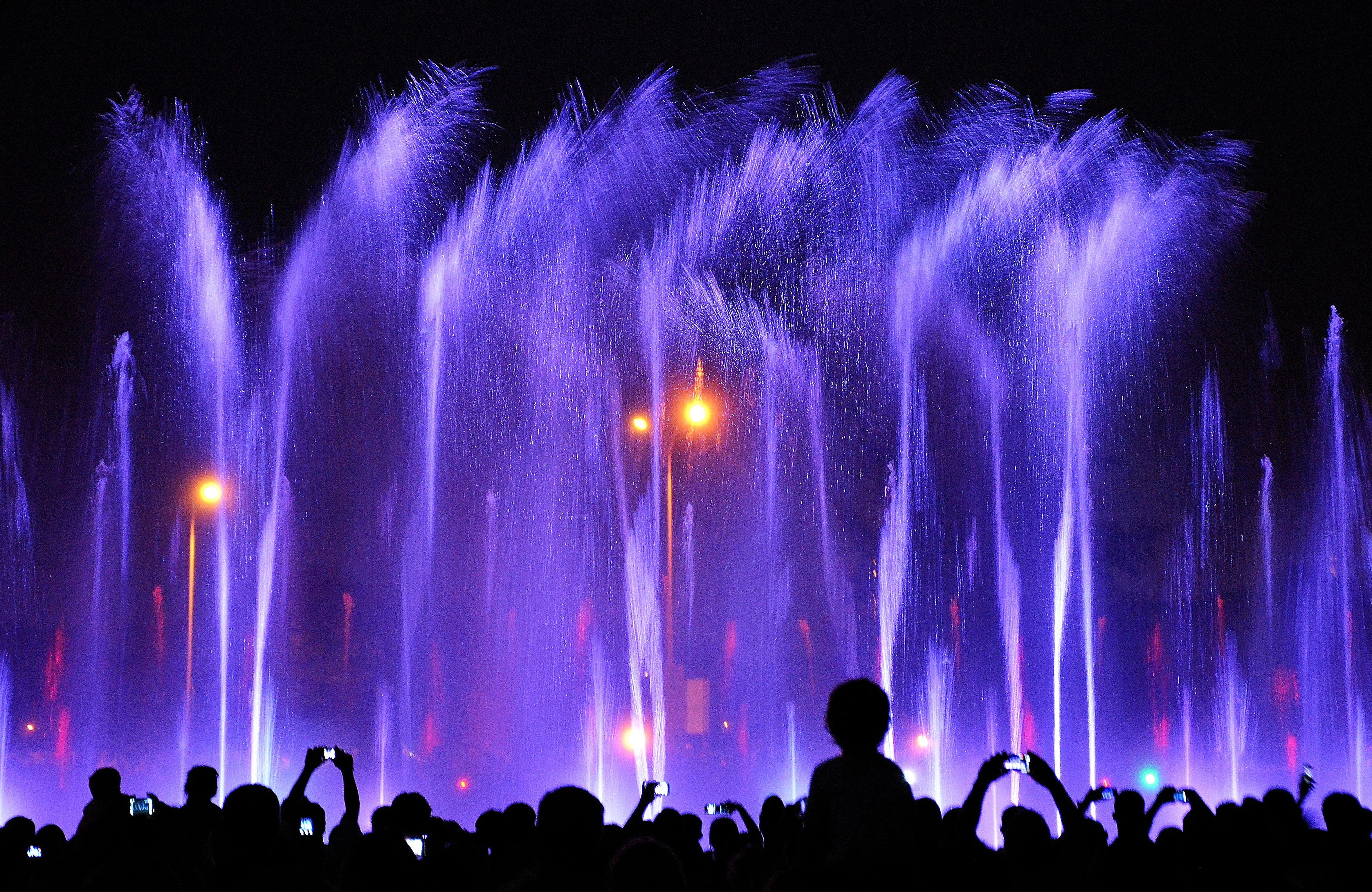 Multimedia show at the Multimedia Fountain Park in Warsaw